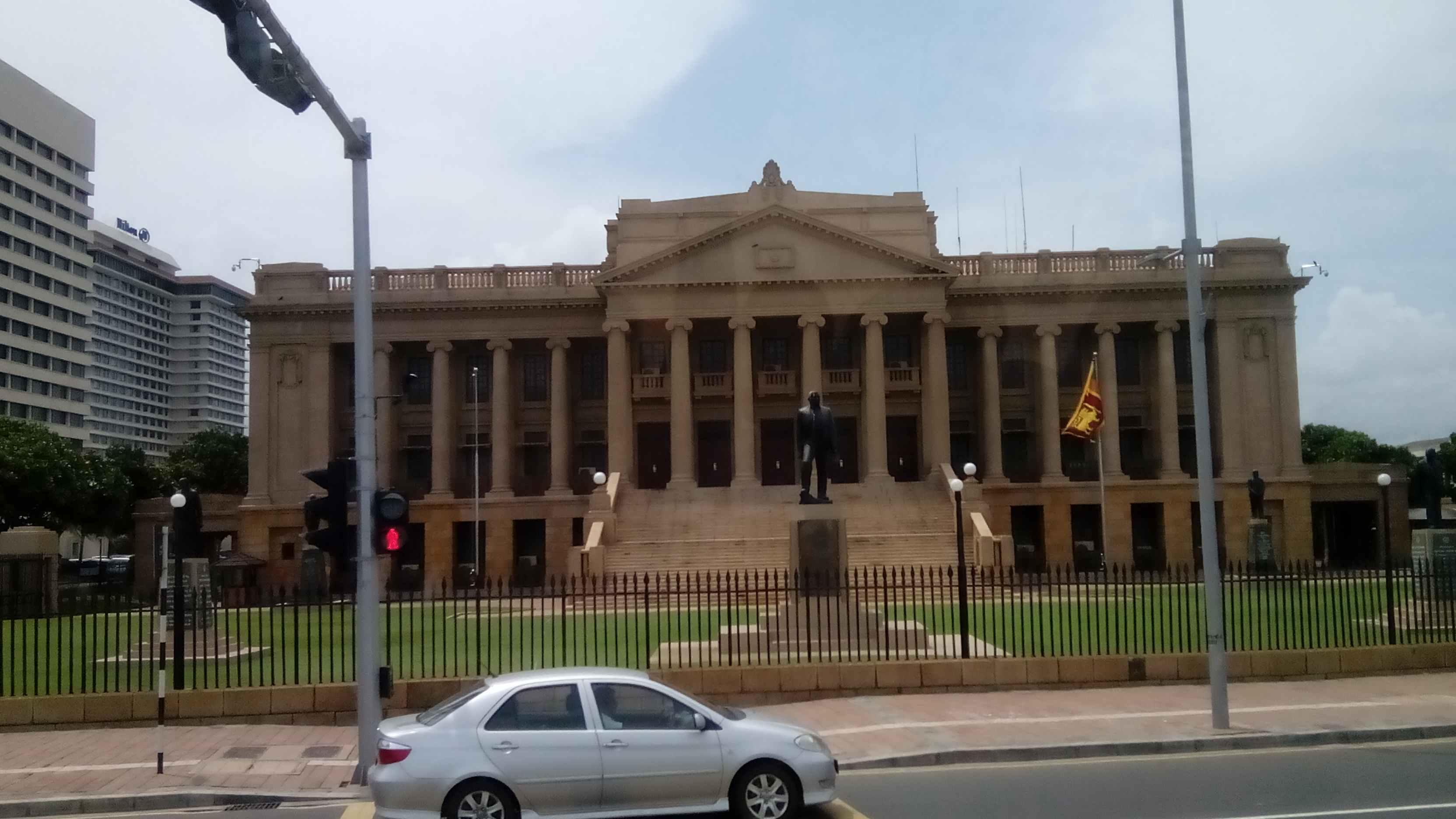 Presidential Secretariat, Colombo, Sri Lanka